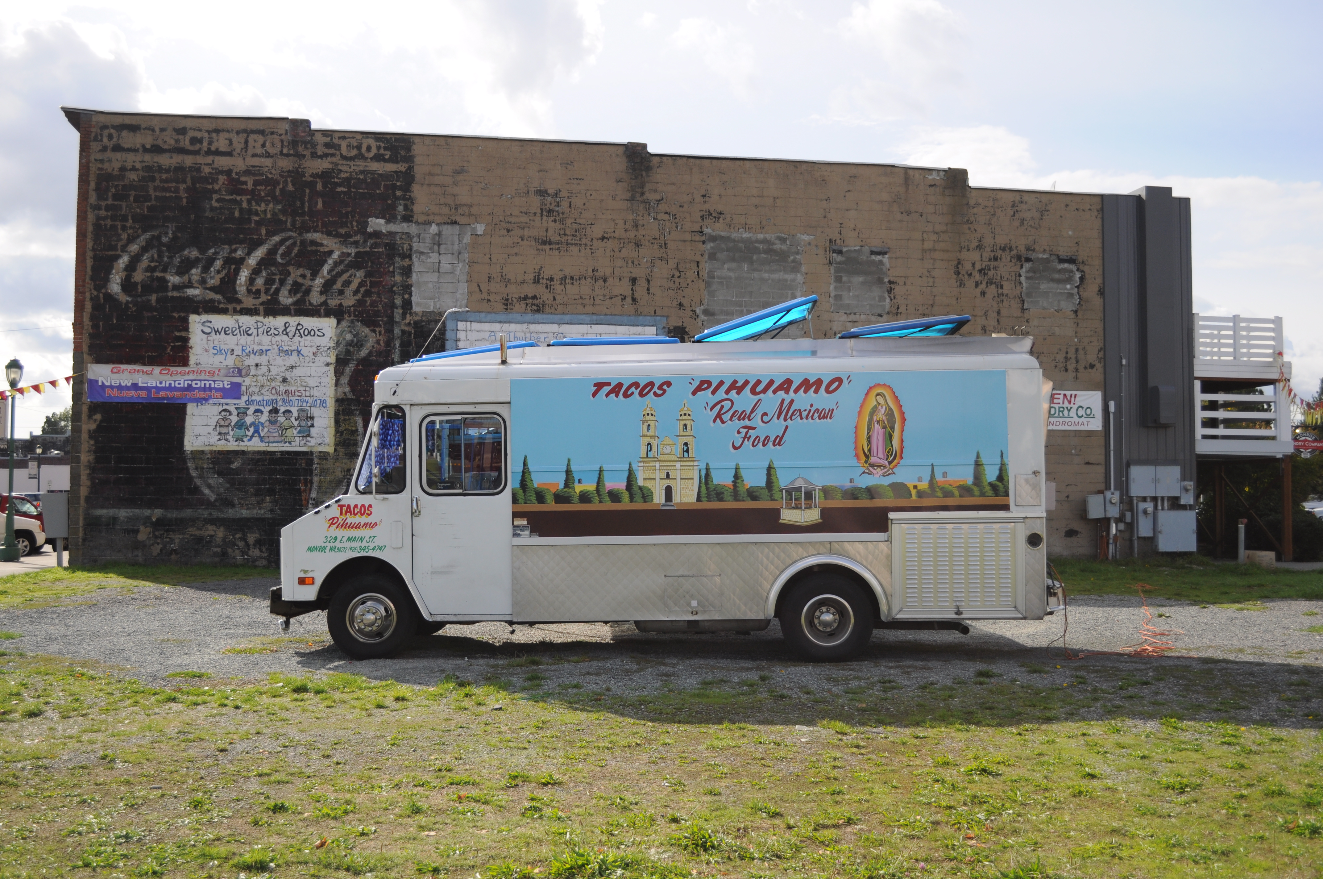 Taco truck, W. Main Street, Monroe, Washington.